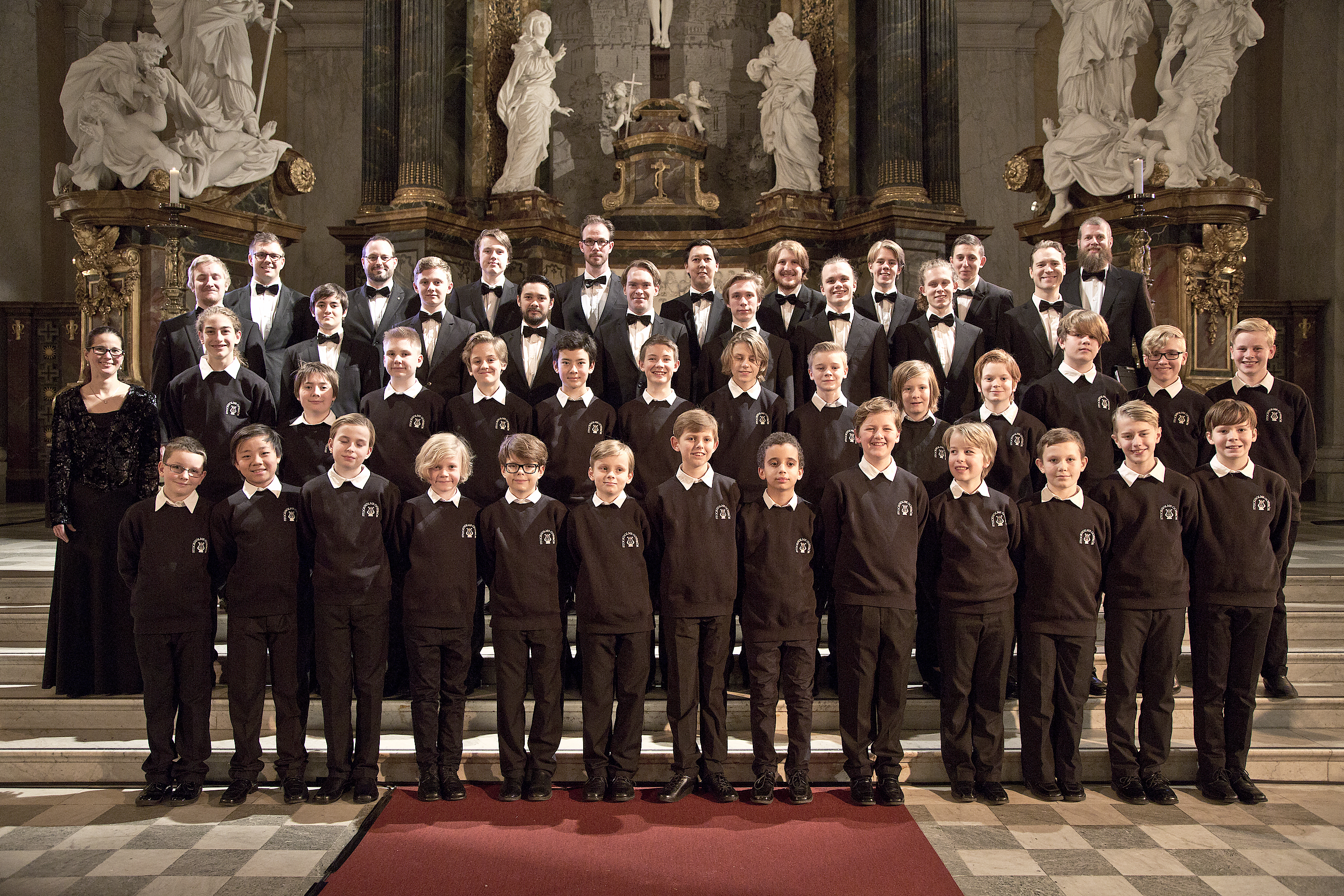 Stockholms Gosskör (Konsertkören) med Karin Skogberg Ankarmo. Foto: Barbro Kaufmann